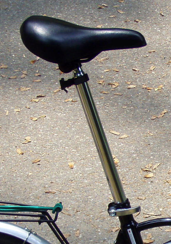 Detail of File:CitizenBike.jpg previously uploaded